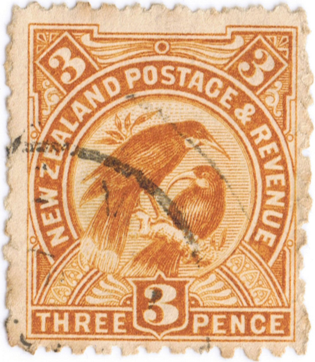 1898 New Zealand stamp 3 pence brown (huia)